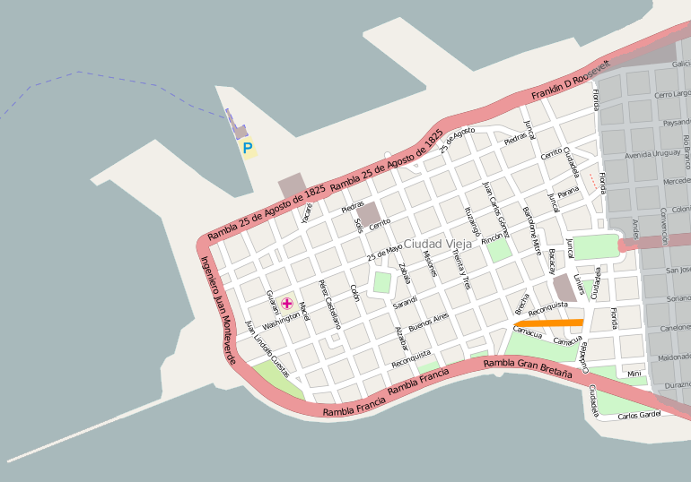 Location of the disappeared Yerbal street in Montevideo, a former red-light district.